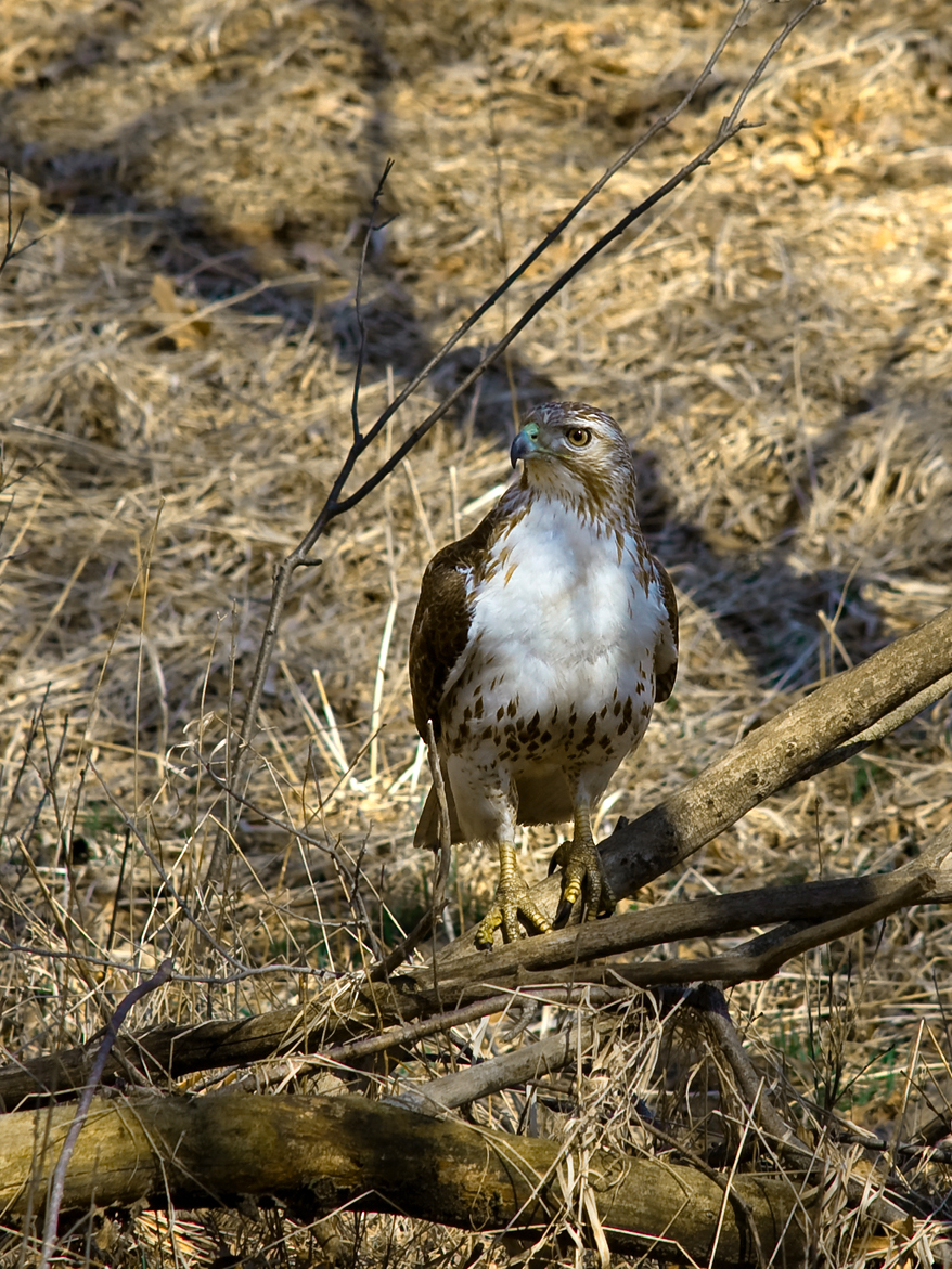 Red-tailed Hawk (Buteo jamaicensis borealis) at Chain 'O Lakes State Park